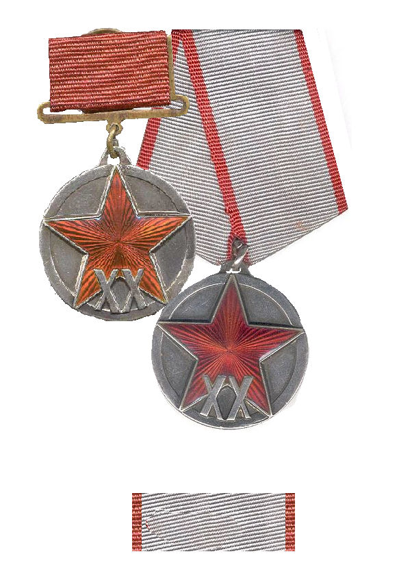 20th. jubilee Of The Red Army